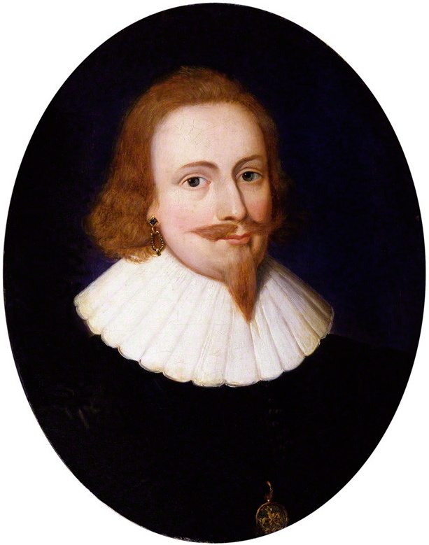 Portrait of Robert Carr, 1st Earl of Somerset